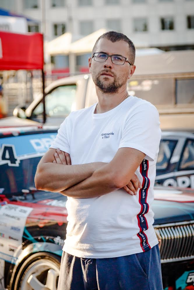 Andrey Kravchenko racecar driver at racecar challenges in Kyiv, Ukraine